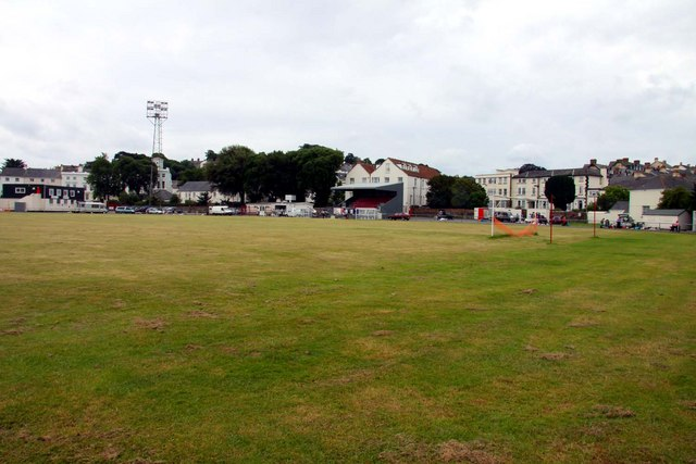 The Sports Ground home of Bideford AFC